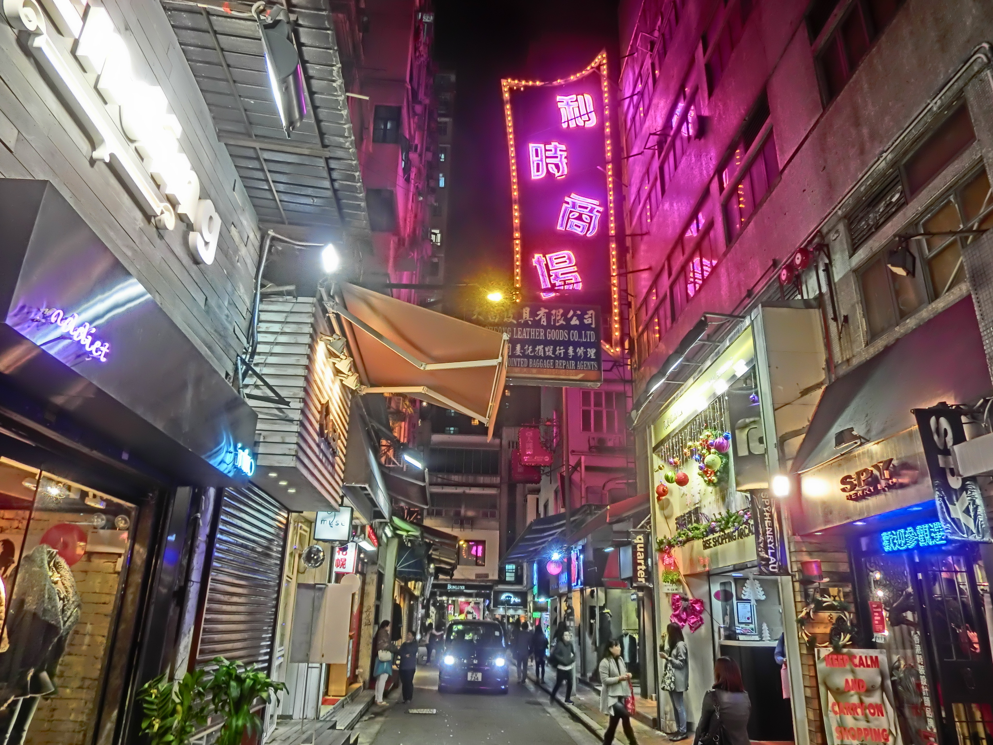 Rise Shopping Arcade, Granville Circuit, Granville Road, Tsim Sha Tsui, Hong Kong